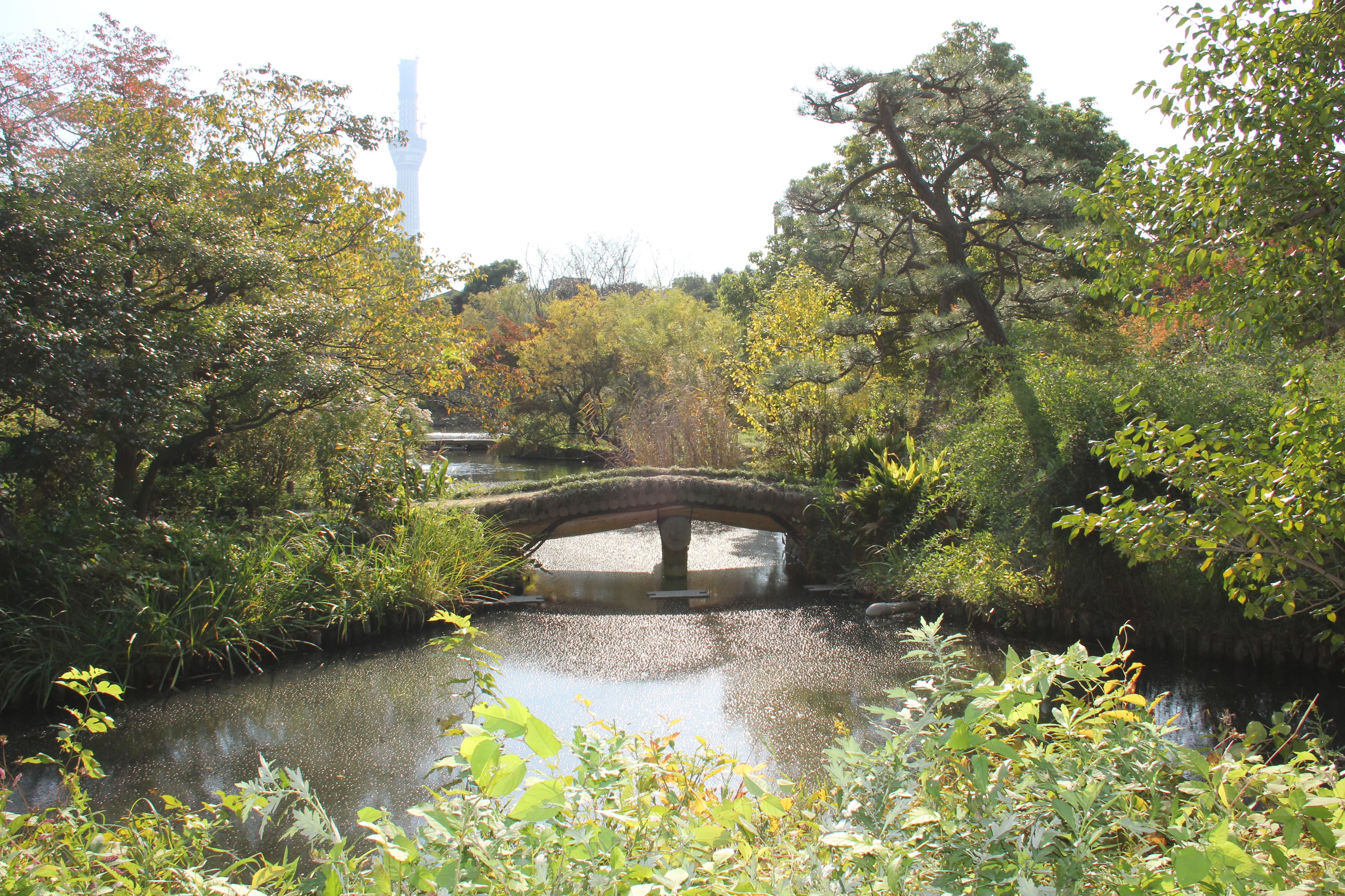 Mukujima-hyakkaen